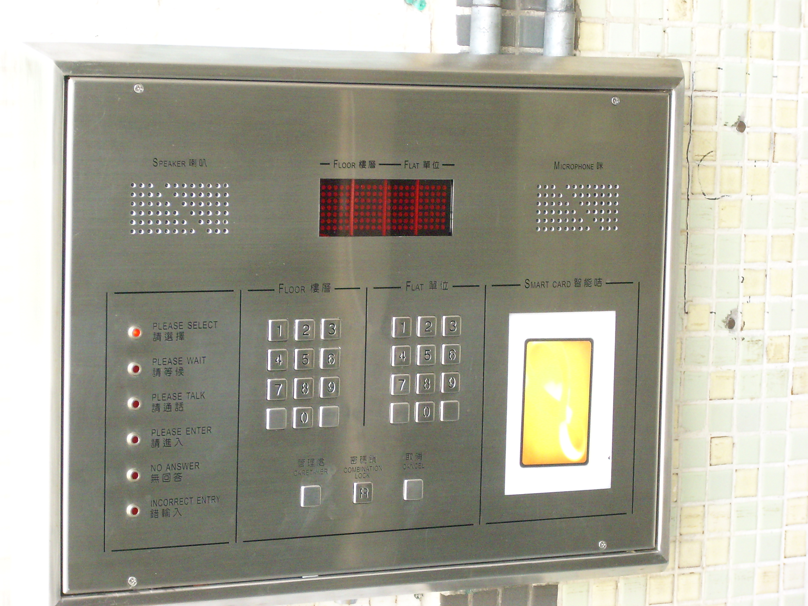 八達通門禁系統 Octopus Card Access Control